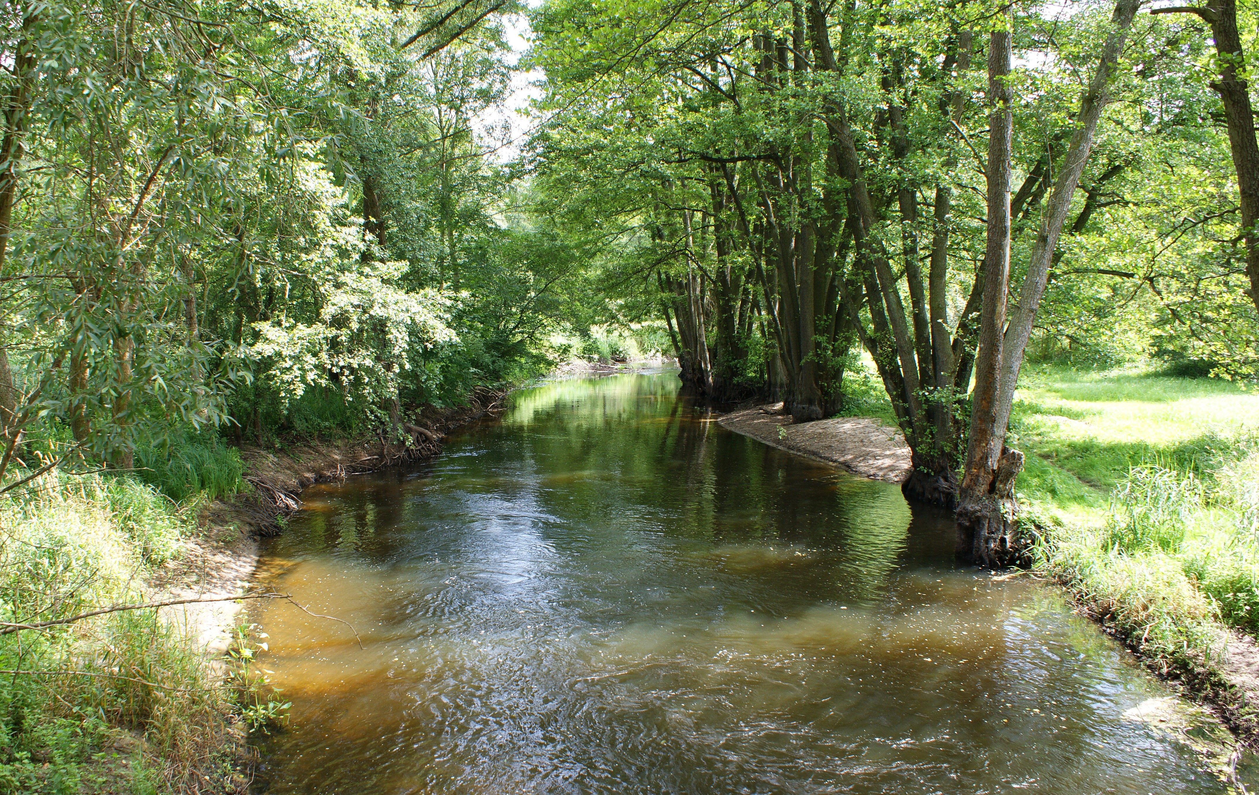 Myśla river in Mostno (NW Poland)